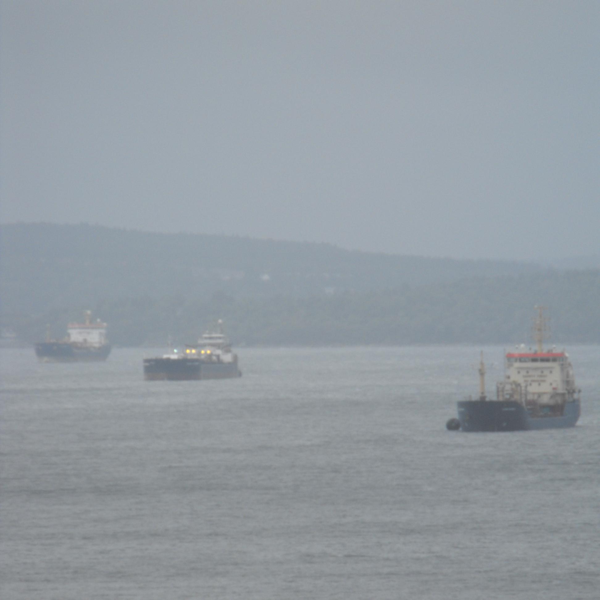 Ocean going vessels moored in Bedford Basin, Halifax Regional Municipality, on August 28, 2011 as they wait out Hurricane Irene.